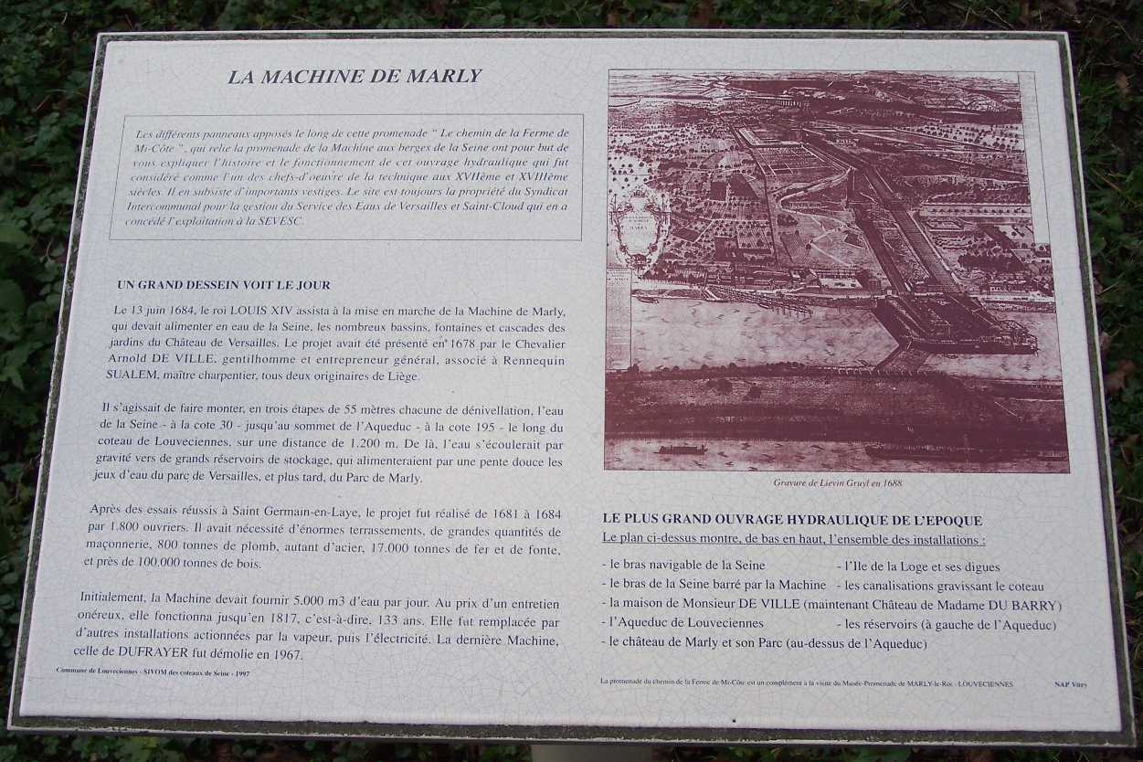 Touristic sign about lhe Machine of Marly in the path of the Machine in Louveciennes (Yvelines, France)